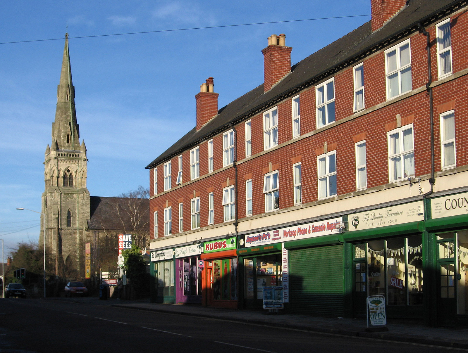 Gateford Road, Worksop, Nottinghamshire, England, showing the tower and spire of St John the Evangelist parish church